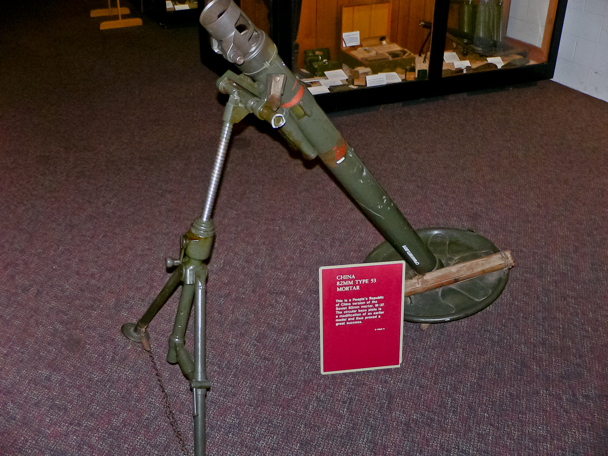 Picture taken by myself, Mark Pellegrini, at the United States Army Ordnance Museum (Aberdeen Proving Ground, MD) on August 14, 2007.